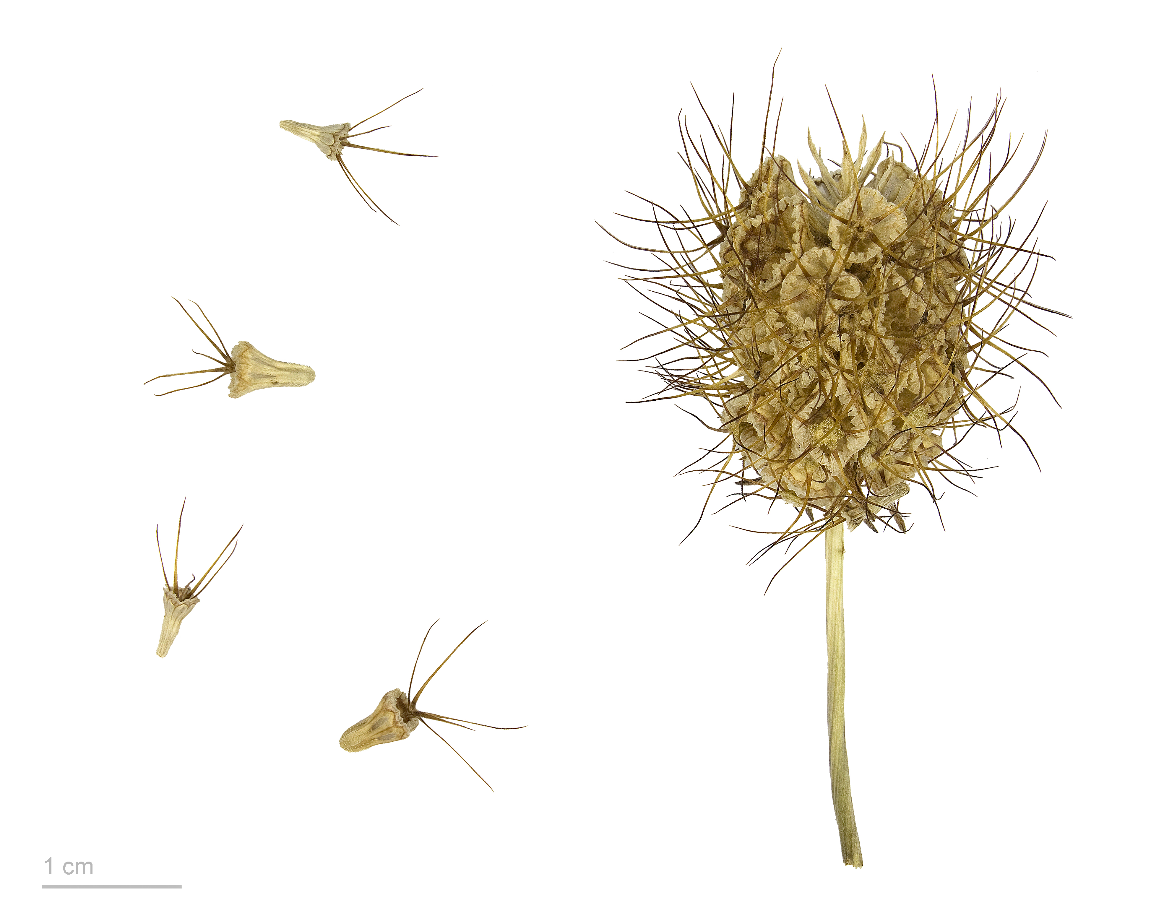 Sweet scabious, fruits and seeds